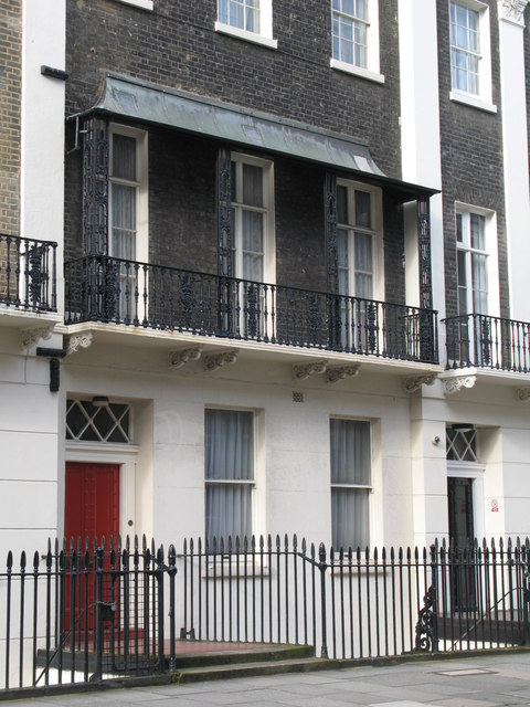 Balcony with canopy, Endsleigh Street, WC2. See 1203736.